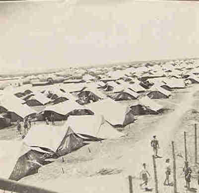 The tents in the deportation Summer camps at Cyprus.